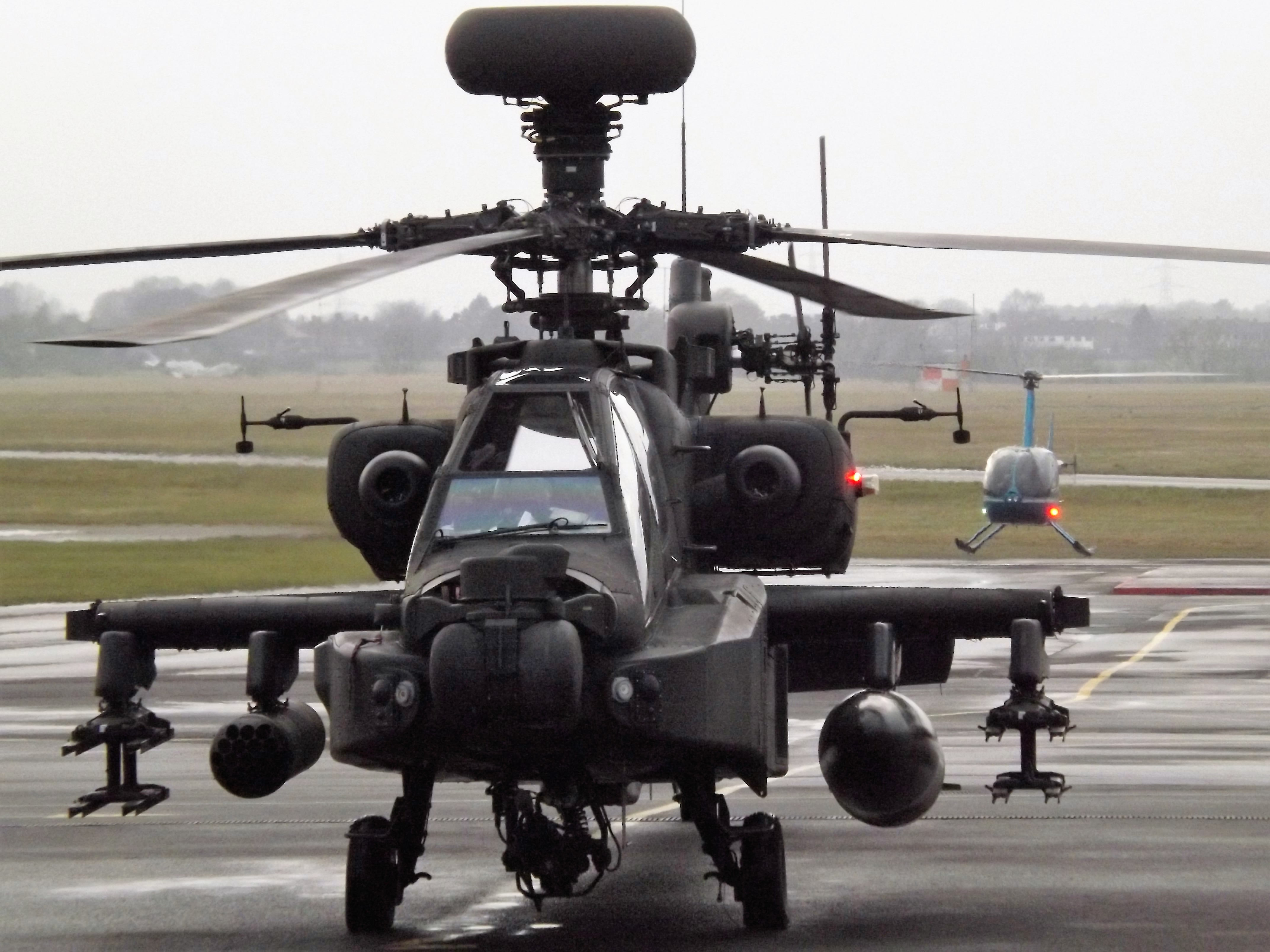 At Gloucestershire Airport.